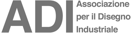 Logo of Associazione per il Disegno Industriale.